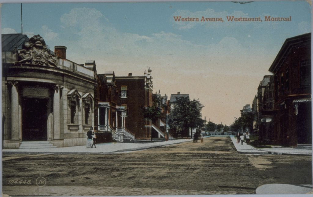 Western Avenue, Westmount, Montreal, carte postale, Valentine & Sons' Publishing Co.